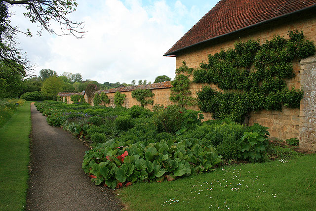 The South Wall of the Kitchen Garden At Barrington Court.